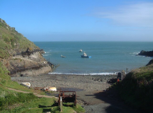 Martin's Haven. Boats leave here from a small jetty, to Skomer Island.